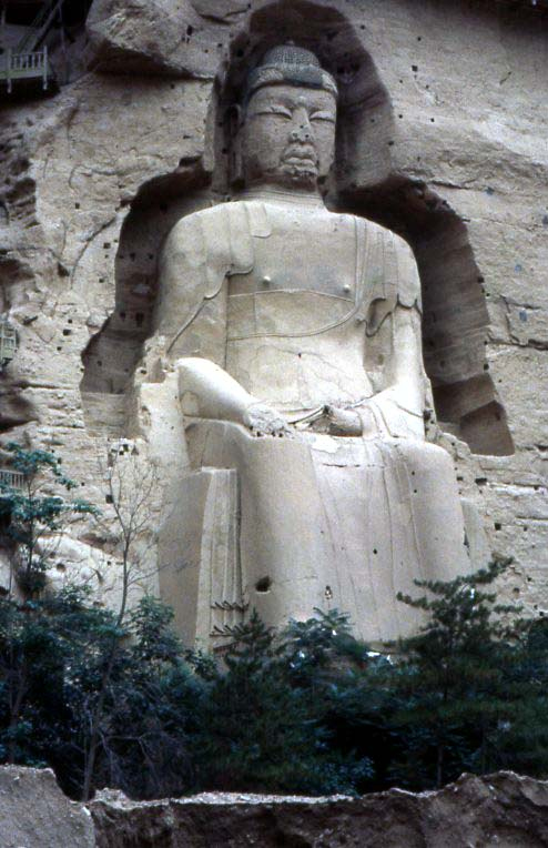 Huge statue of Buddha (26 mt) on the Yellow River at Bingling-Si, Gansu, China